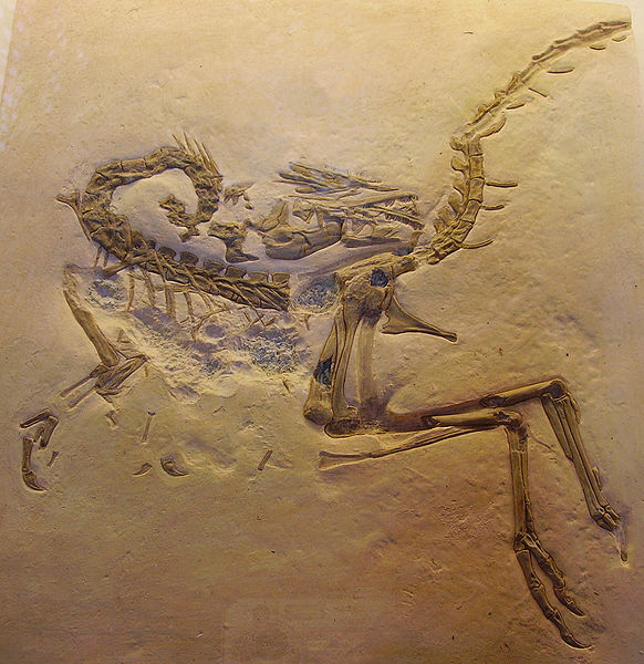 Compsognathus longipes cast, Oxford University Museum of Natural History.